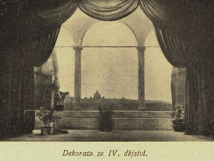 Torquato Tasso by Jaroslav Maria, National Theatre Prague 1918